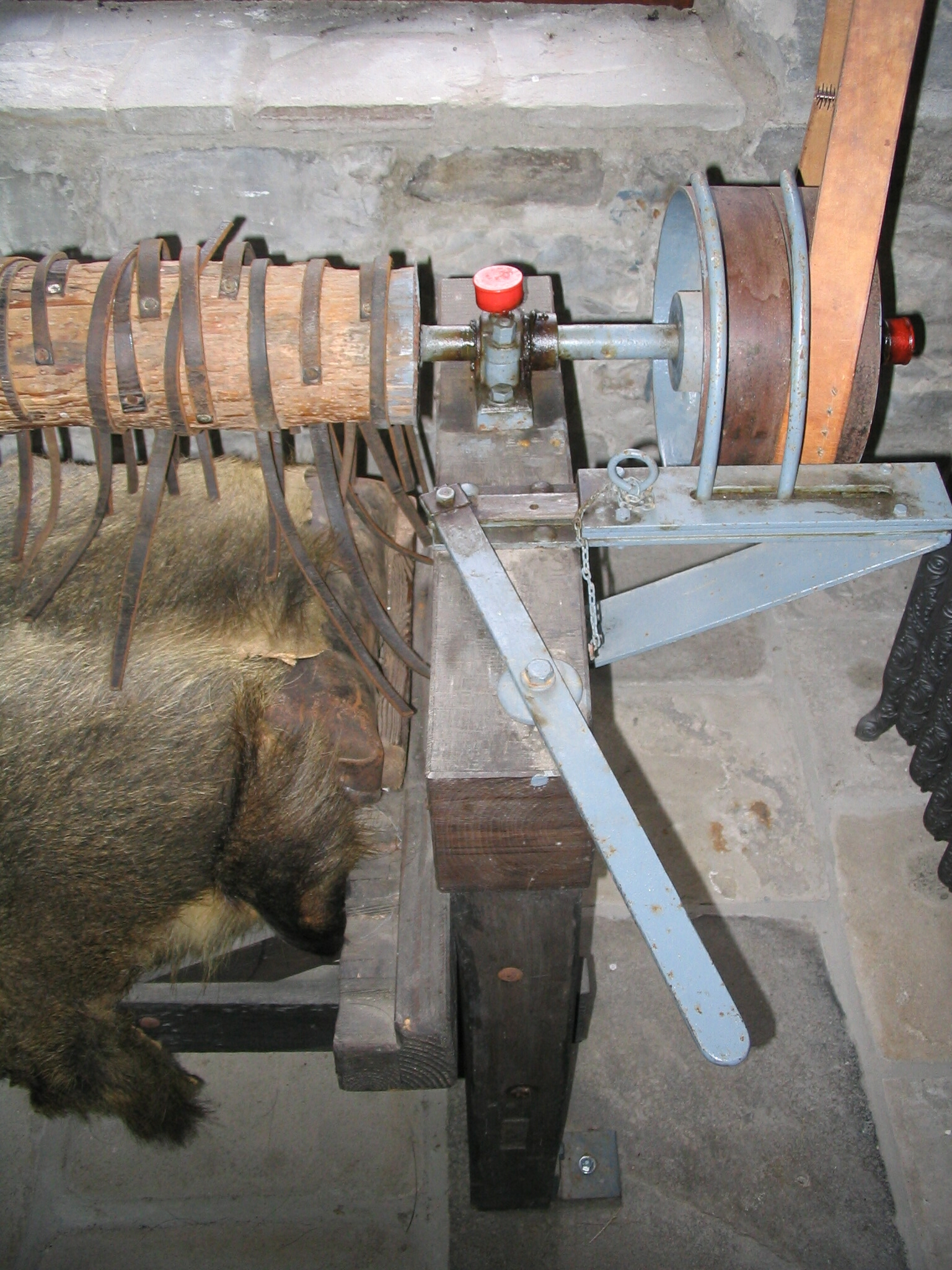 Furrier's tools, Westfälisches Freilichtmuseum Hagen